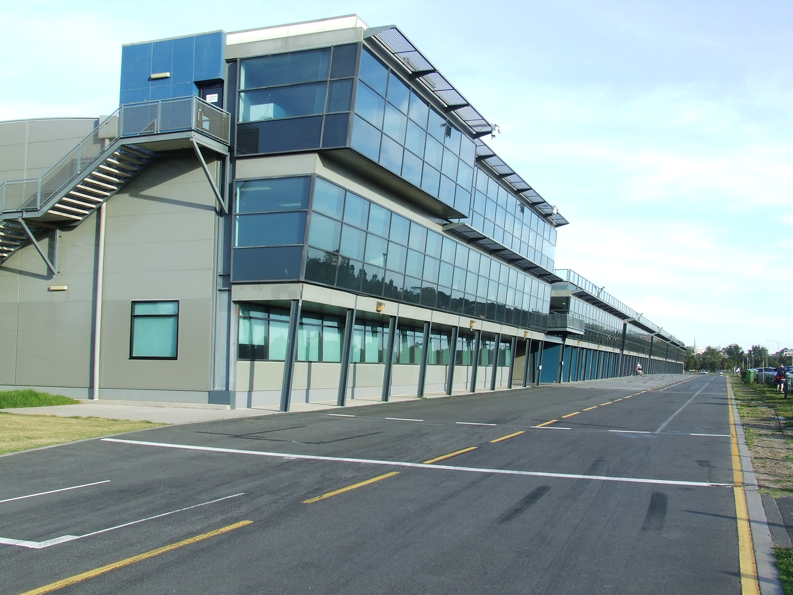 Melbourne Grand Prix Circuit pit building